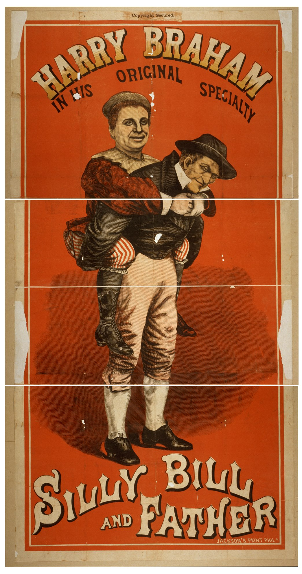 Title: Harry Braham in his original specialty, Silly Bill and father Abstract/medium: 1 print : color woodcut ; sheet 220 x 112 cm. (poster format)